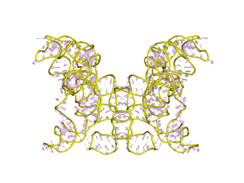 Cartoon representation of the molecular structure of protein registered with 1grz code.